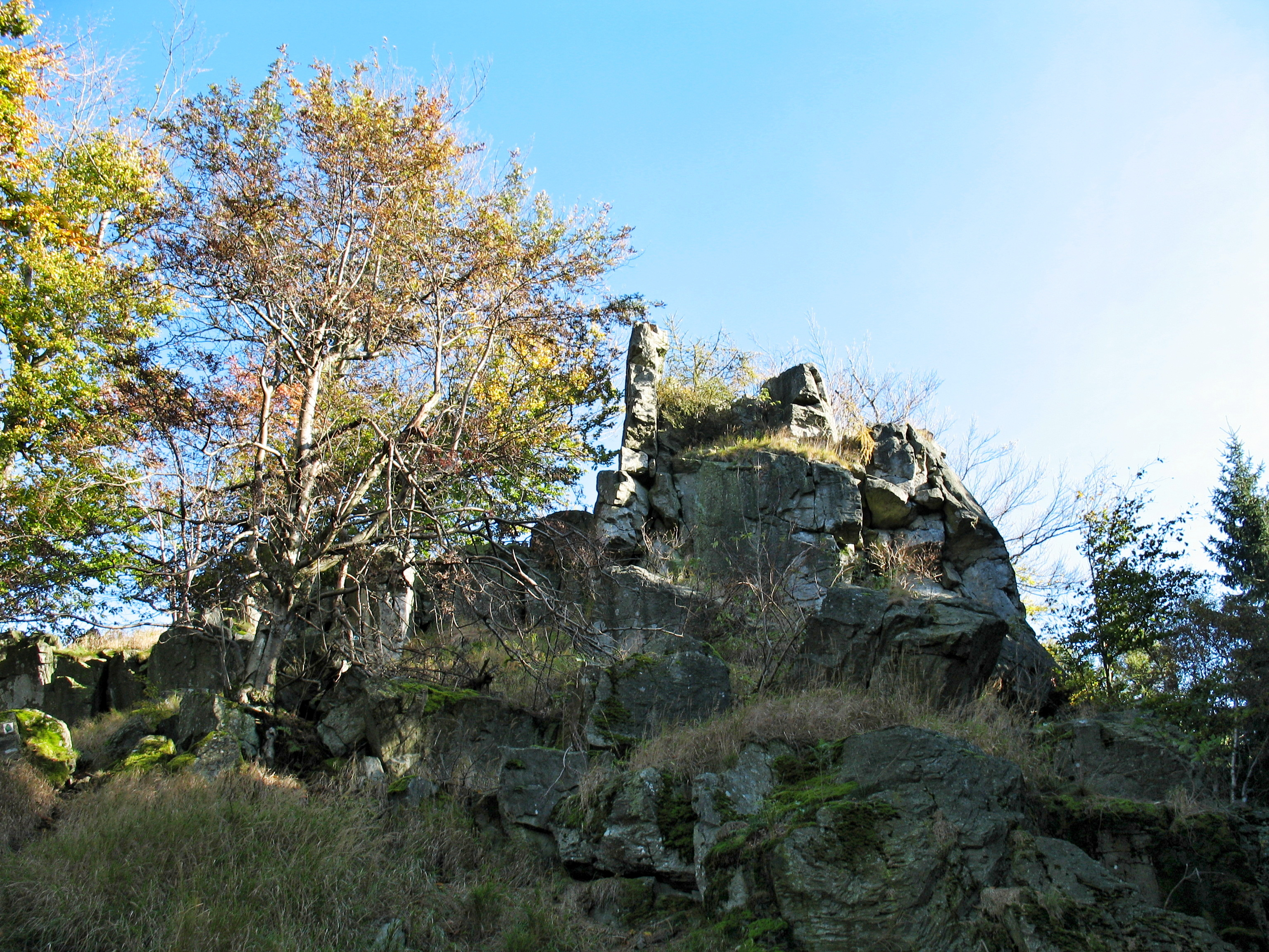 Basalt Rock Konopáč (also Jelení skála), Lusatian Mountains, Czech Republic